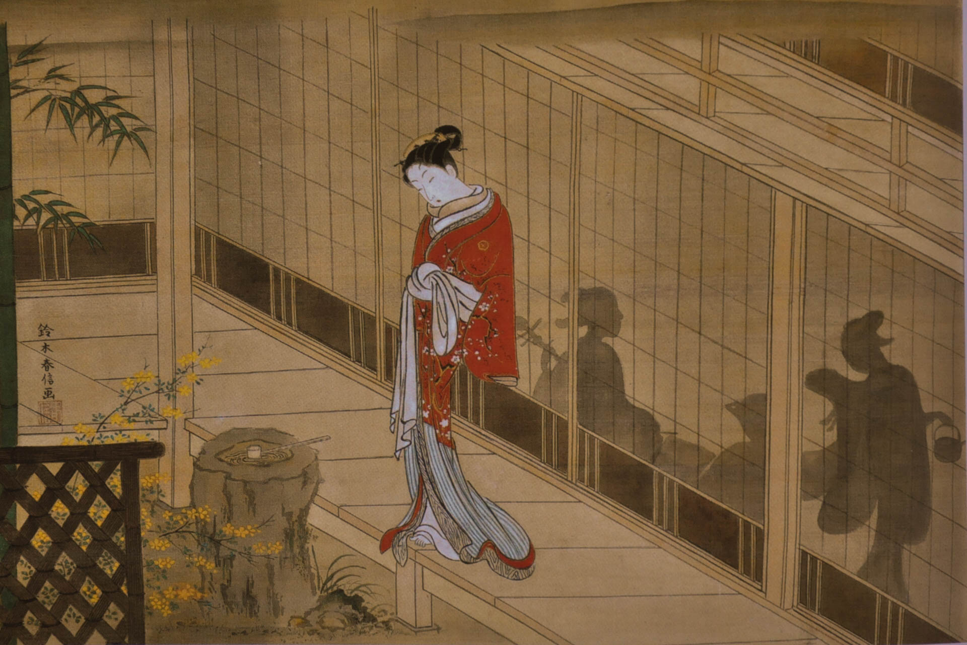 Harunobu, nishiki-e print of unusual size of 13.6" by 21.3". Probably between 1760 and 1770. Museum of Fine Arts, Boston (cropped) : Parody of the Muken no Kane Scene in the Play Hiragana Seisuiki: Woman Standing on a Veranda outside a Room with a Party